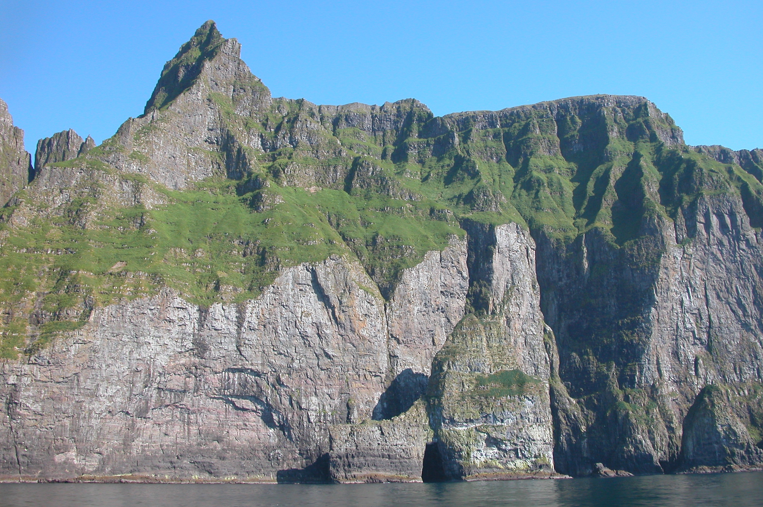 Vestmannabjørgini on Streymoy, Faroe Islands